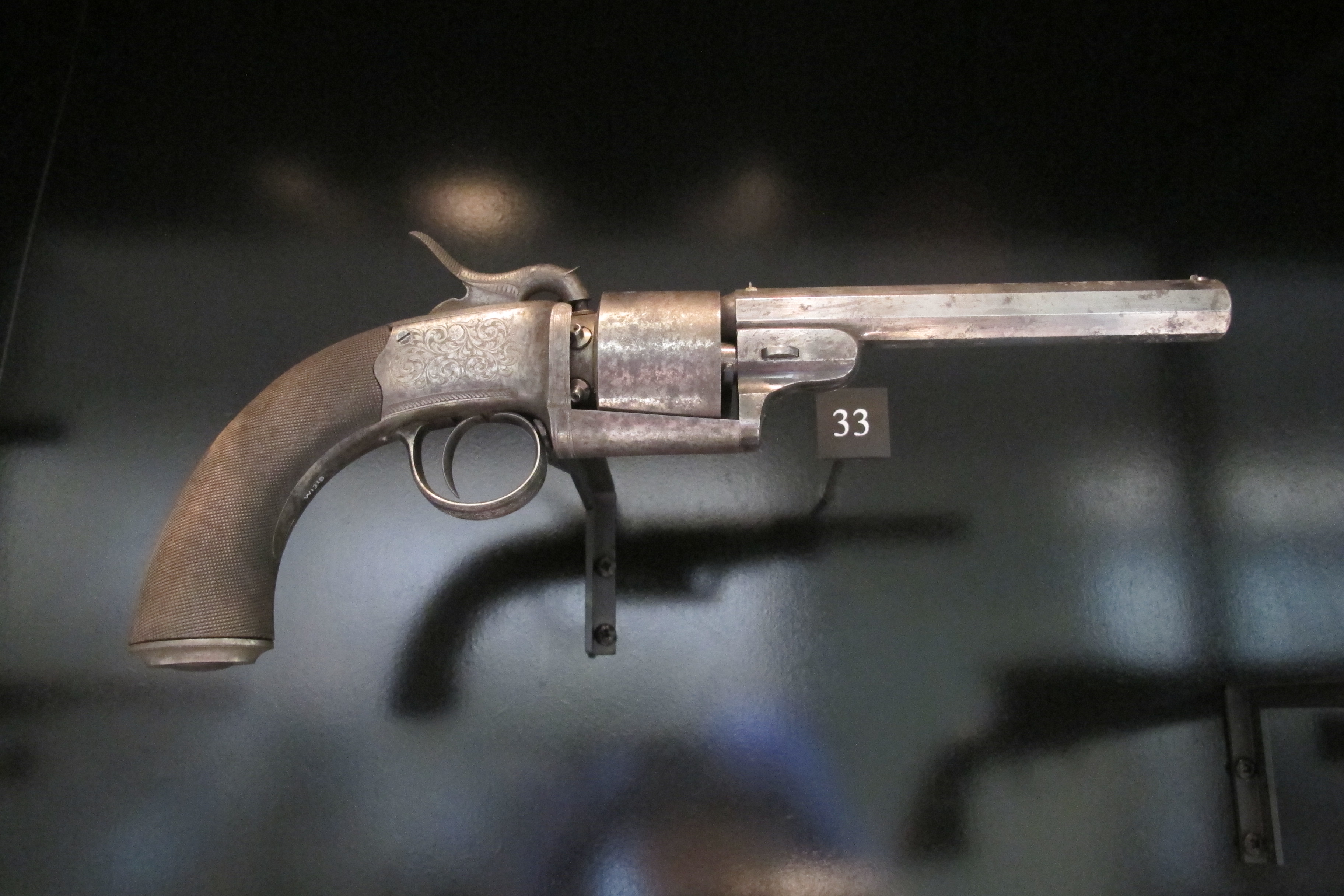 Holland transitional percussion cap revolver with case and accessories, circa 1850s transitional percussion cap; 6 shot; .45 inch calibre; rifled; foliate engraving on lock, trigger guard, and pistol grip tang; wooden one-piece grips, finely chequered; silver escutcheon on wrist of pistol grip, unmarked; butt trap for percussion caps case- wooden case; lined with green baize; with eight compartments (one is lidded); maker's label printed on paper inside lid with image of the Royal Arms; space for metal plaque on top of lid, now missing accessories- ramrod, nipple wrench; cleaning jag; powder flask markings- on centre of underside of barrel and chambers of cylinder- London proof and view marks top of barrel- H. HOLLAND, 9 KING ST. HOLBORN. LONDON. paper label inside lid of case- H. HOLLAND - Gun, Rifle, and Pistol - Manufacturer, - 9, KING STREET, HOLBORN, - LONDON. maker- H Holland, London, c1850